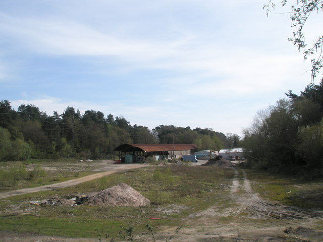 Looking from Midhurst Common back towards Station Road Industrial Estate